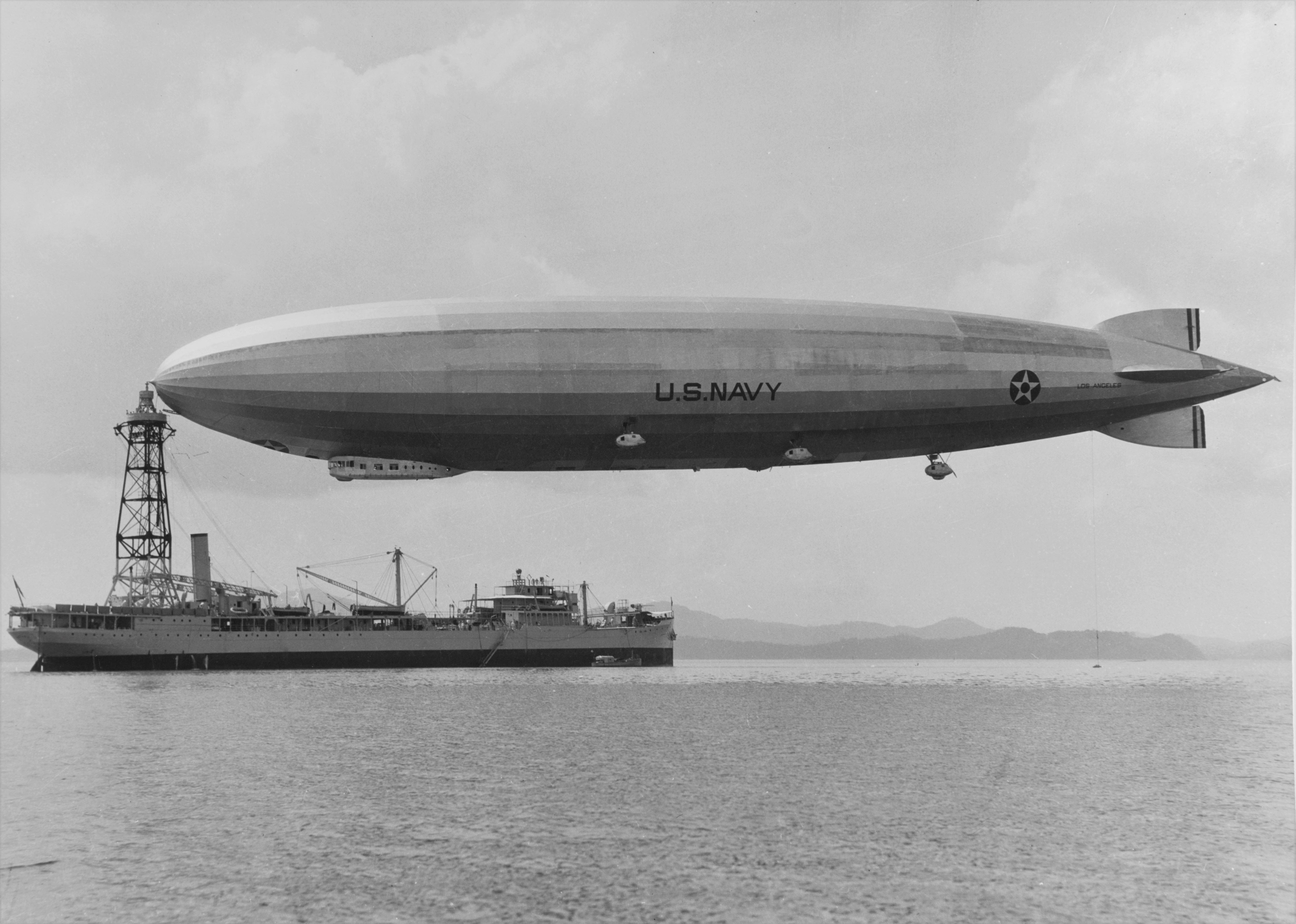 USS Los Angeles (ZR-3) moored to USS Patoka (AO-9), off Panama during Fleet Problem XII, circa February 1931.